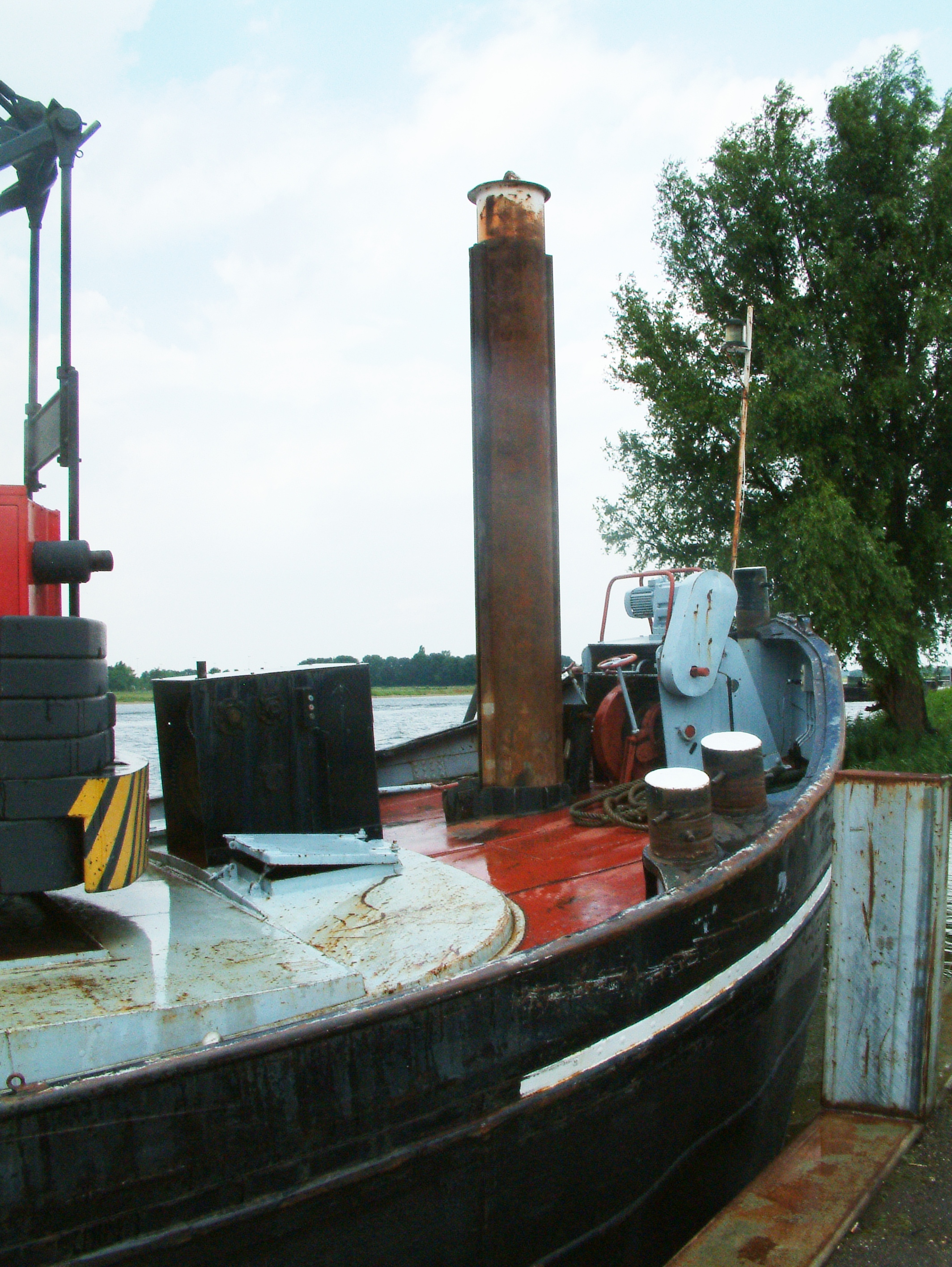 Anchorpole front of ship